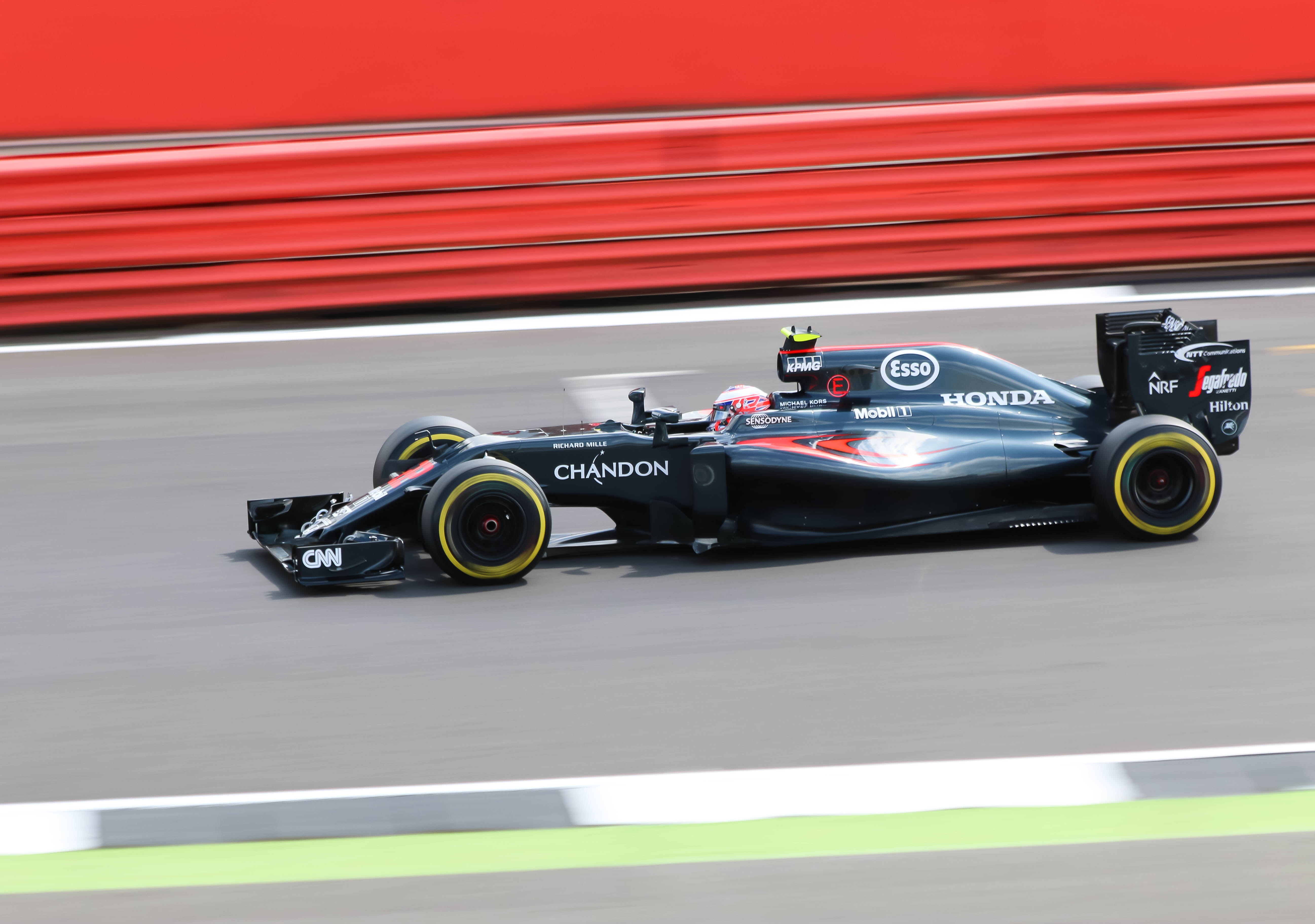 Jenson Button in its McLaren MP4-31, 2016 British GP